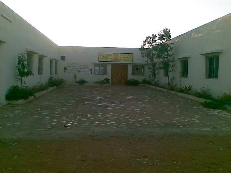 Branch of East Africa University in Galkayo, Somalia.